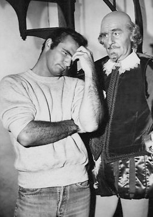 Photo of Burt Reynolds and John Williams from the Twilight Zone episode "The Bard".